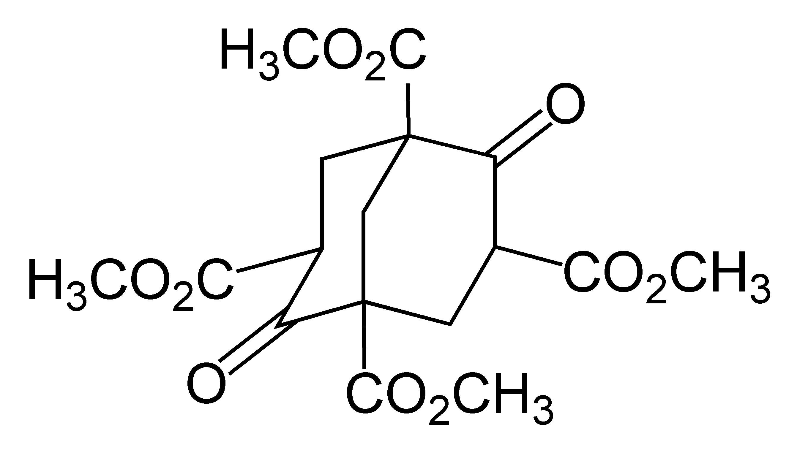 Chemical compound - Meerwein's Ester. Precursor in adamantane and barbaralan synthesis.